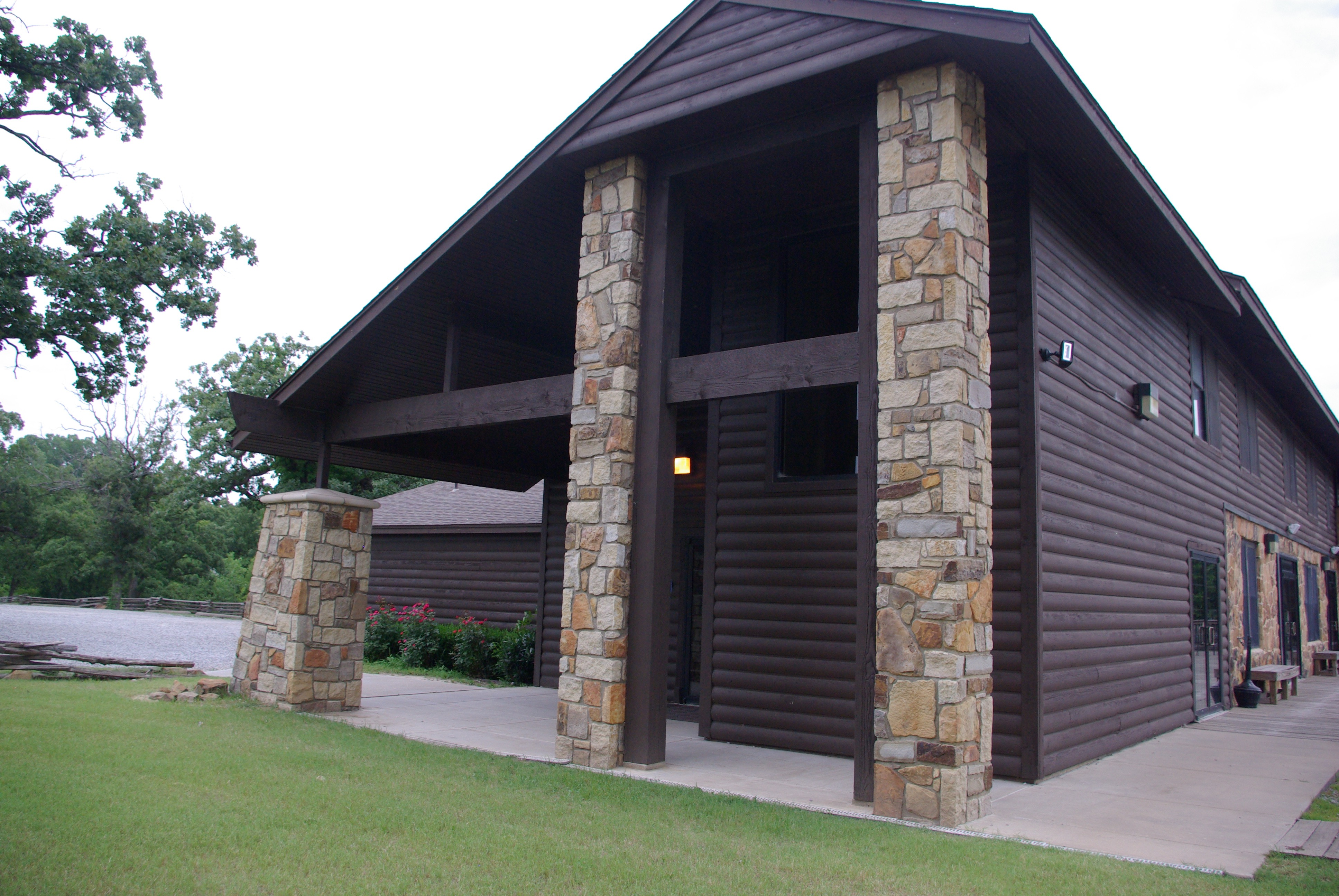 Lodge at Camp Loughridge